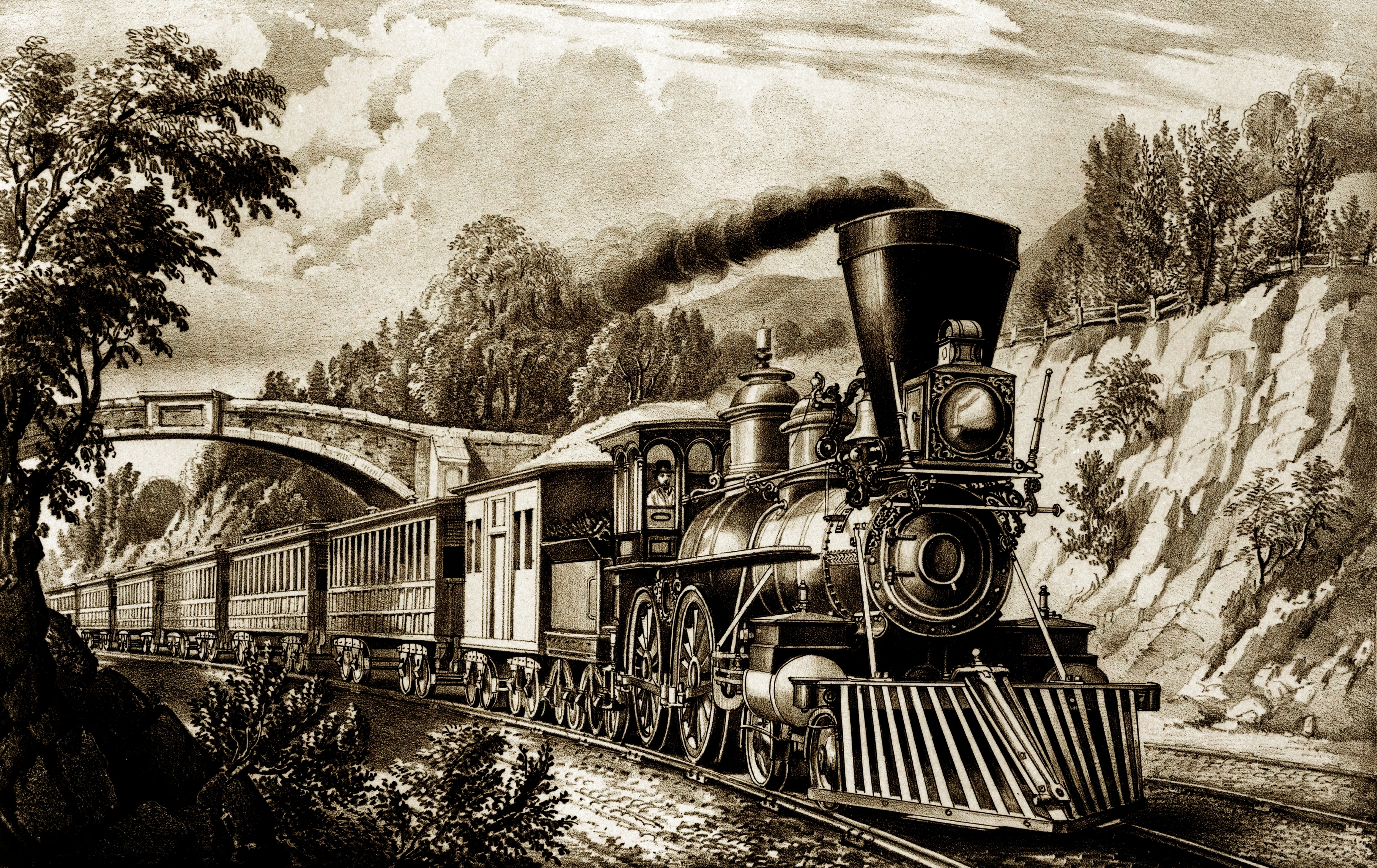 The Express Train by Currier & Ives